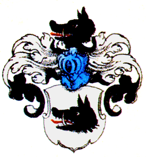 Coat of arms of the von Hardenberg family